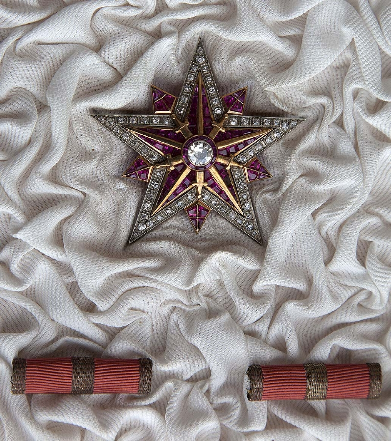 Order of FreedomLegacy of Konstantin Koca Popovic and Leposava Lepa Perovic